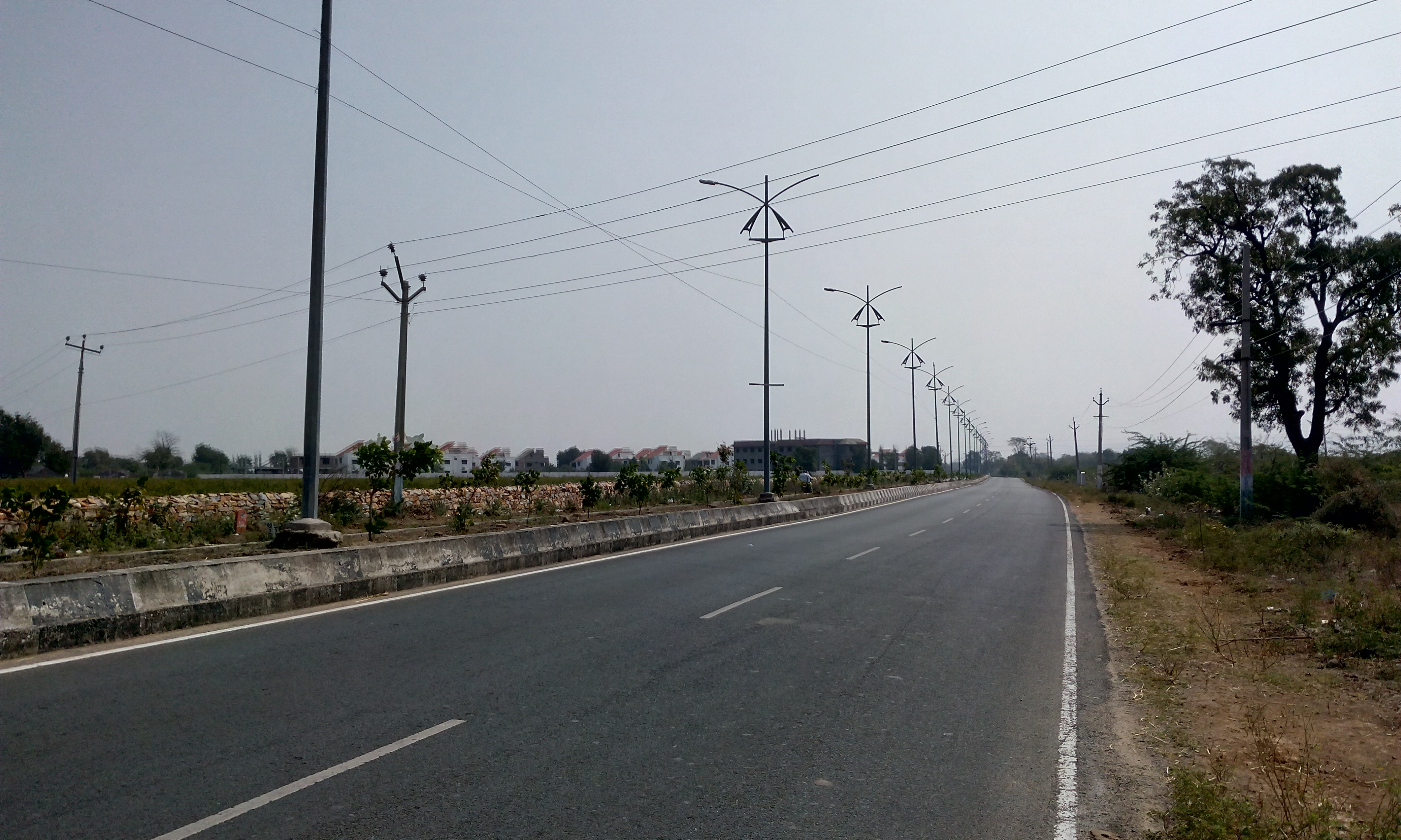 Plvd-Kdp road